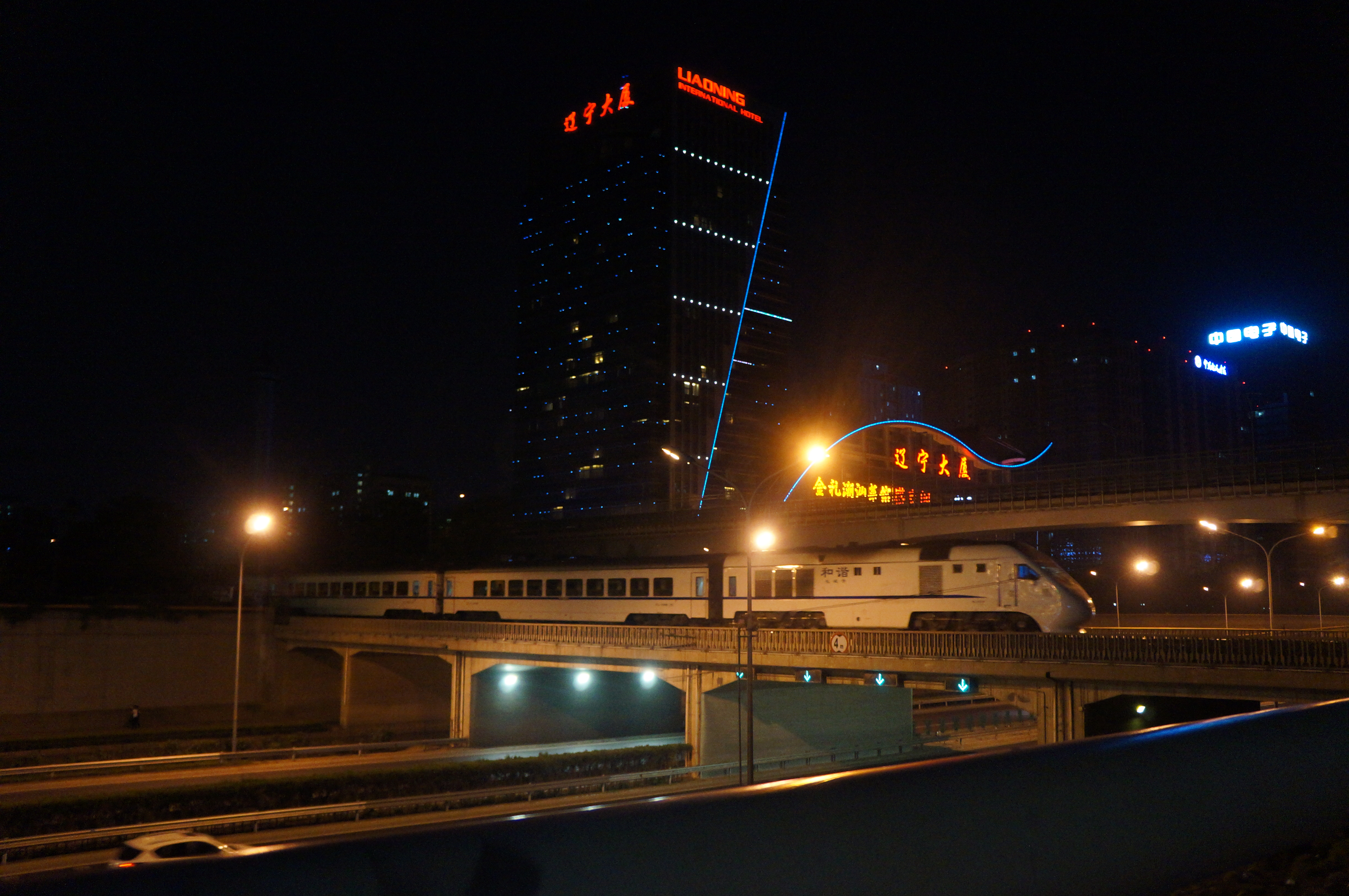 201606 NDJ3 passes over North 4th Ring